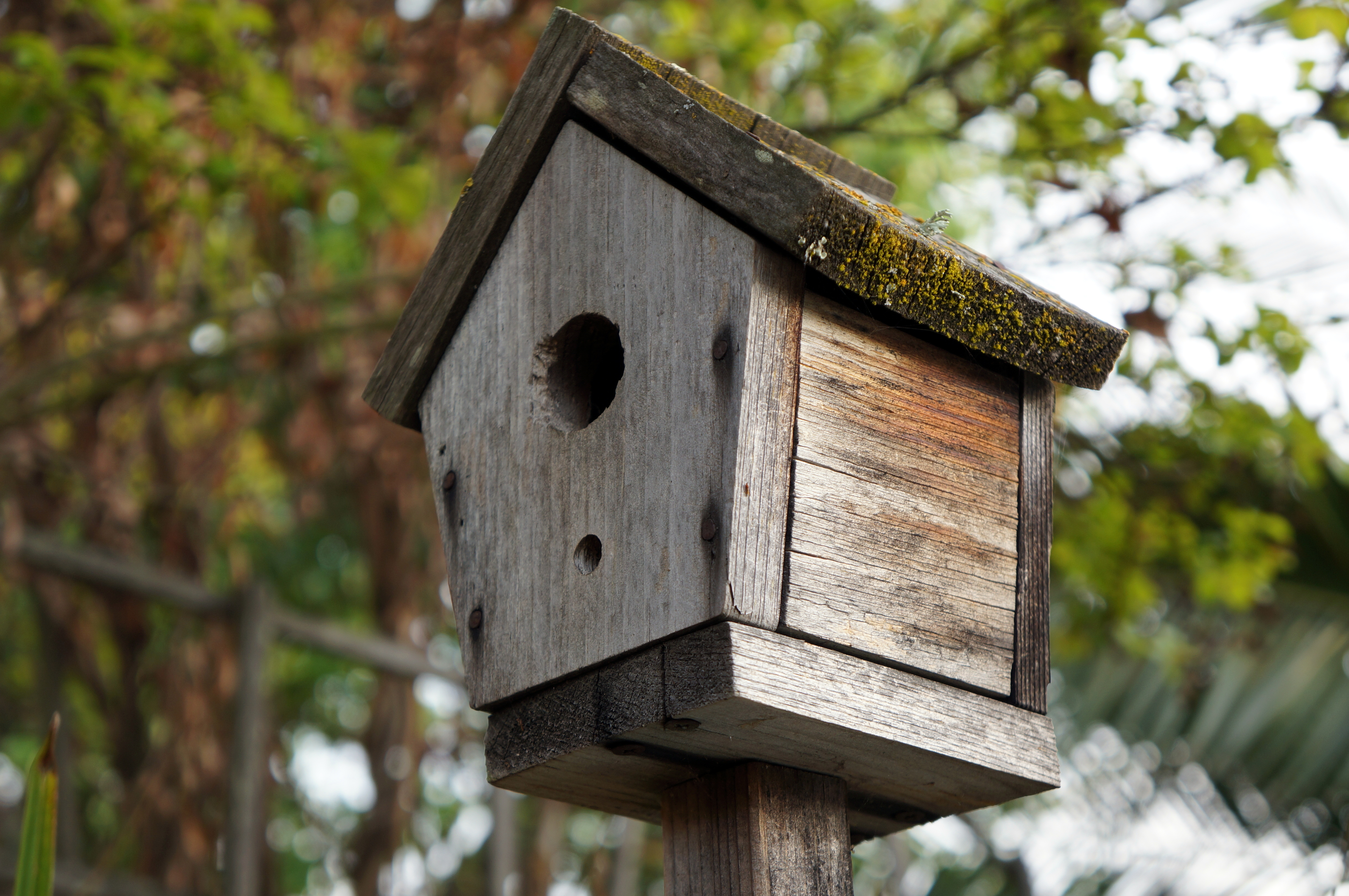 Birdhouses